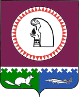 Coat of Arms of Oktyabrsky rayon (Khanty-Mansyisky AO)